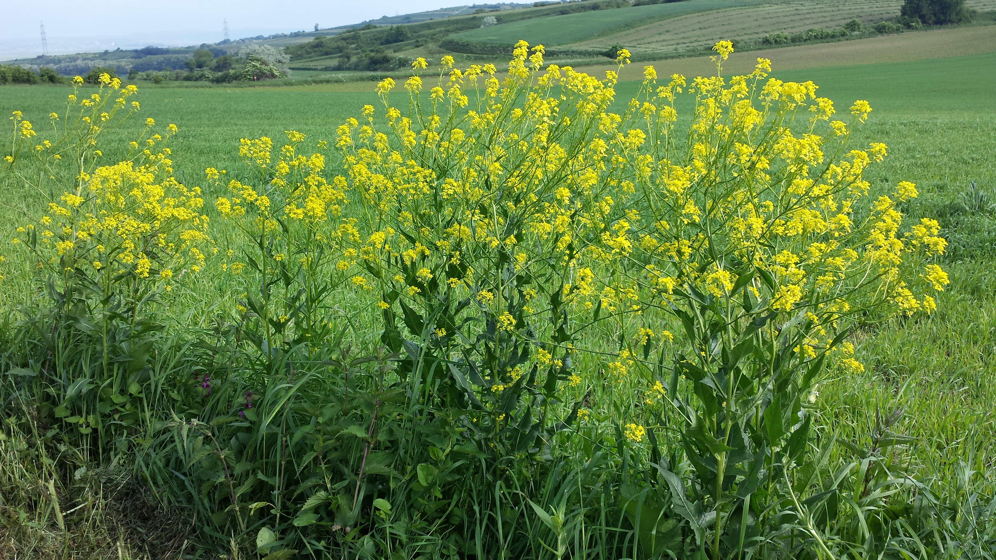 Habitus Taxon: Bunias orientalis (sensu Fischer et al. EfÖLS 2008 ISBN 978-3-85474-187-9) Location: near Sitzendorf an der Schmida, district Hollabrunn, Lower Austria - ca. 300 m a.s.l. Habitat: roadside